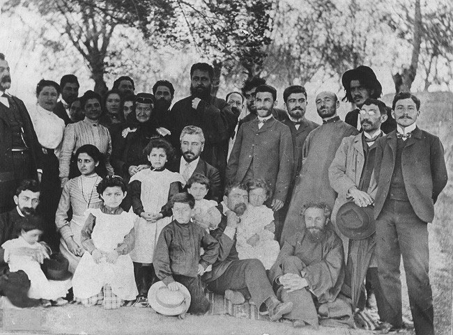 Komitas (4th from right), Hrachya Acharyan (2nd from right) among Gevorgian Seminary staff